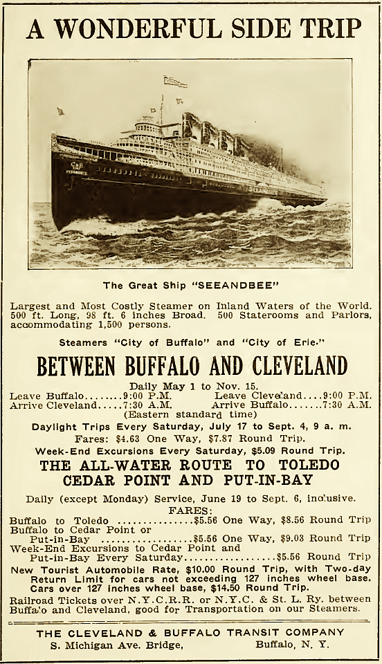 1920 Cleveland & Buffalo Transit Company Advertisement for ships Featuring Paddle Steamer Seeandbee.